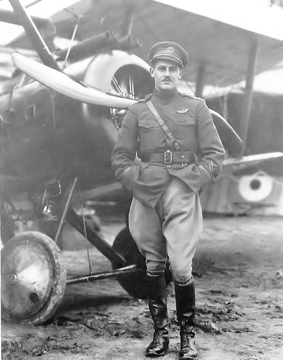 2d Lieutenant Errol Henry Zistel, AEF, 1918.